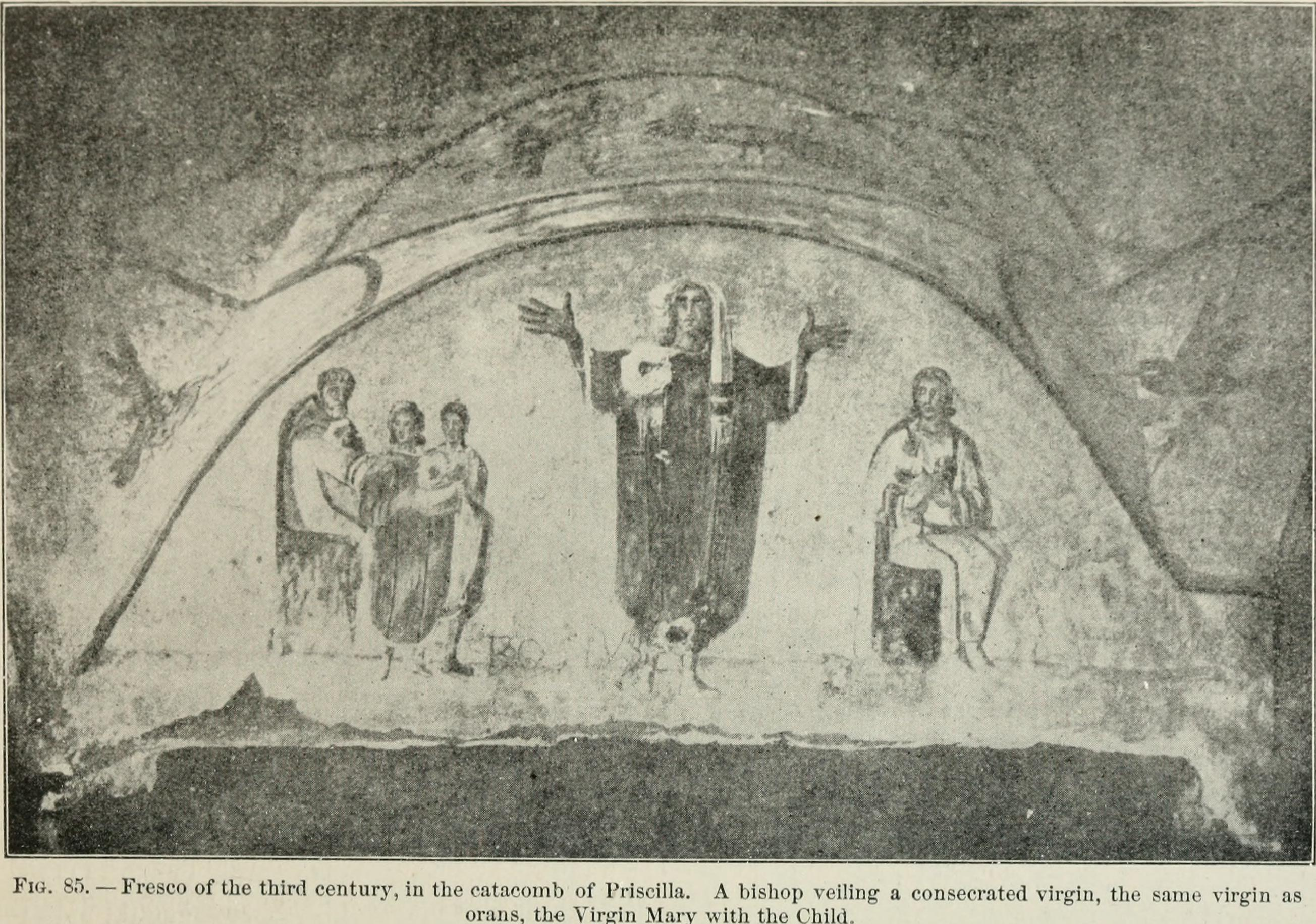 Title: Monuments of the early church Year: 1901 (1900s) Authors: Lowrie, Walter, 1868-1959 Subjects: Christian antiquities Christian art and symbolism Church architecture Church history -- Primitive and early church, ca. 30-600 Publisher: New York, The Macmillan Company London, MacMillan & Co. Text Appearing Before Image: FiG. S4. — Virgin and Child, with a prophet, who pointsto a star, fresco in the catacomb of Priscilla. Middleof the second century. 246 PICTORIAL ABT gests one of Raphaels ^ladoiiiias, and prompts the curiousreflection that in the long interval between that unknownl)ainter Tind the Italian artists of the early Renascence there Text Appearing After Image: SCULPTURE—Introductory 247 was, perhaps, no one who could draw such a group. It will benoticed that the man, who is clad in the philosophers pallium,is pointing to a star. It is not perfectly clear what the picturerepresents, but the man is commonly taken to be a prophetforetelling the birth of Christ, and he is identified as Isaiah oras Balaam. Another highly interesting picture is illustrated in Fig. 85;it is from the same cemetery, but it belongs to the followingcentury. The woman standing in the middle in the posture ofthe orans represents, it is supposed, a consecrated virgin whowas buried in this tomb. It is supposed with good reason thatthe scene in the background, at the left, represents her conse-cration to the virginal life. The virgin holds the veil in herhand, while the bishop, who sits in his cathedra and is assistedby his deacon, admonishes her by pointing to the Blessed Vir-gin as the pattern of her life. B. SCULPTURE Christian sculpture hardly existed before the four